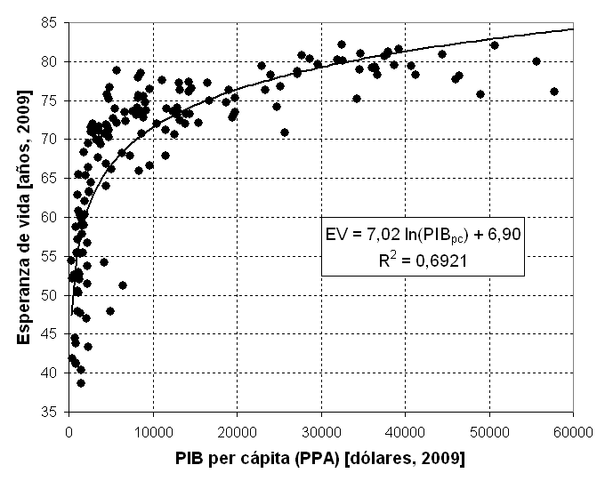 Life expectancy vs. GDP (PPP) per capita, accordig to World Bank, 2009 (sample: 162 coutries) Sources: GDP per capita (PPP), (World Bank, 2009) Life expancy (CIA factbook, 2009)